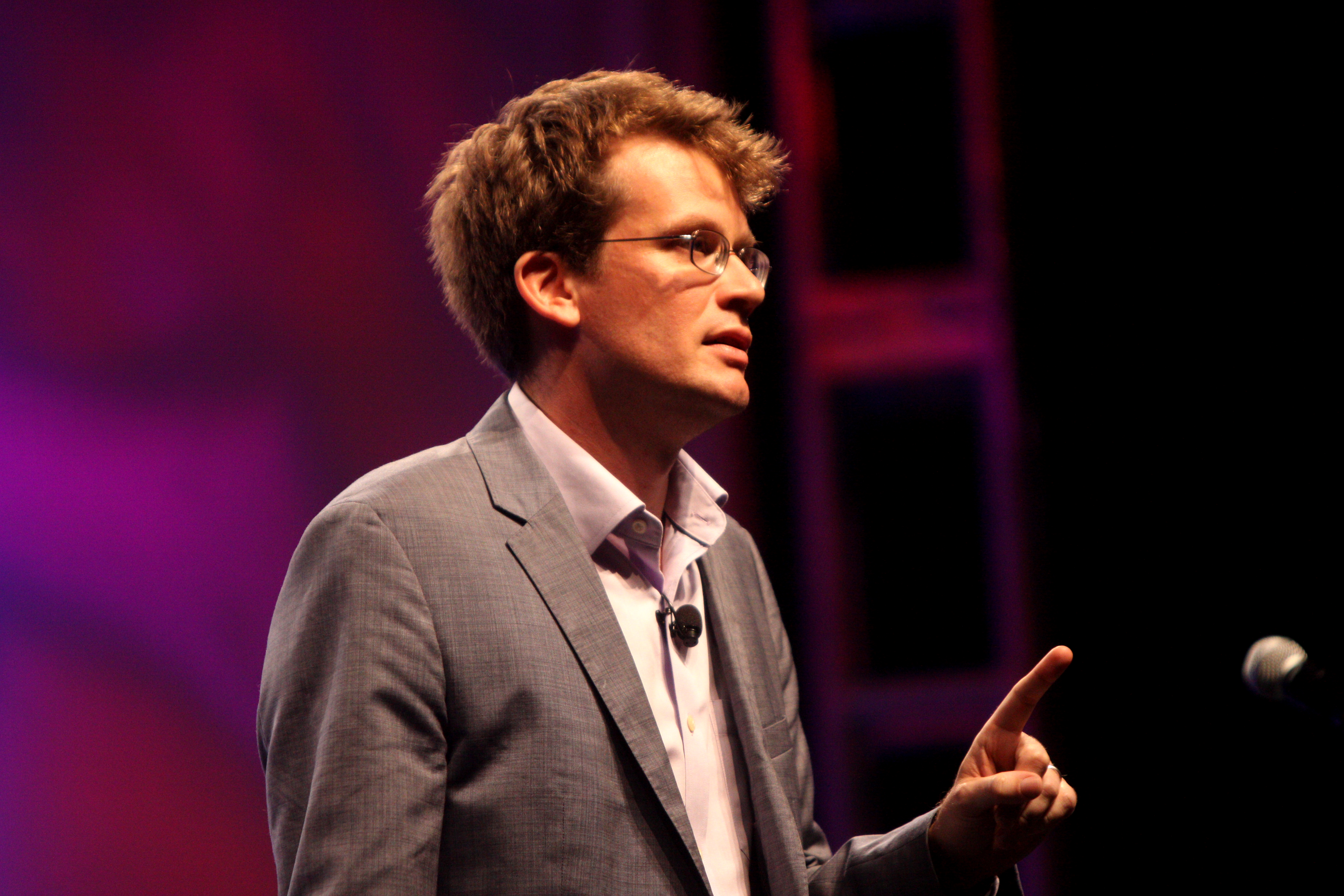 John Green speaking at VidCon 2012 at the Anaheim Convention Center in Anaheim, California.